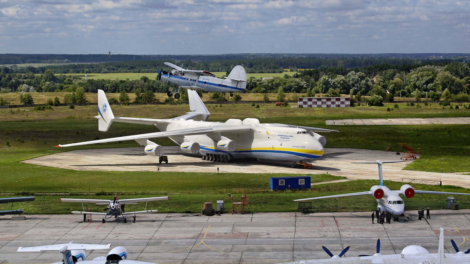 Antonov An-2 flyover of An-225 at Gostomel Airport